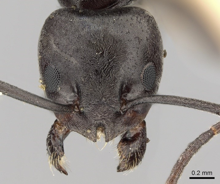 The head of Tapinoma nigerrimum